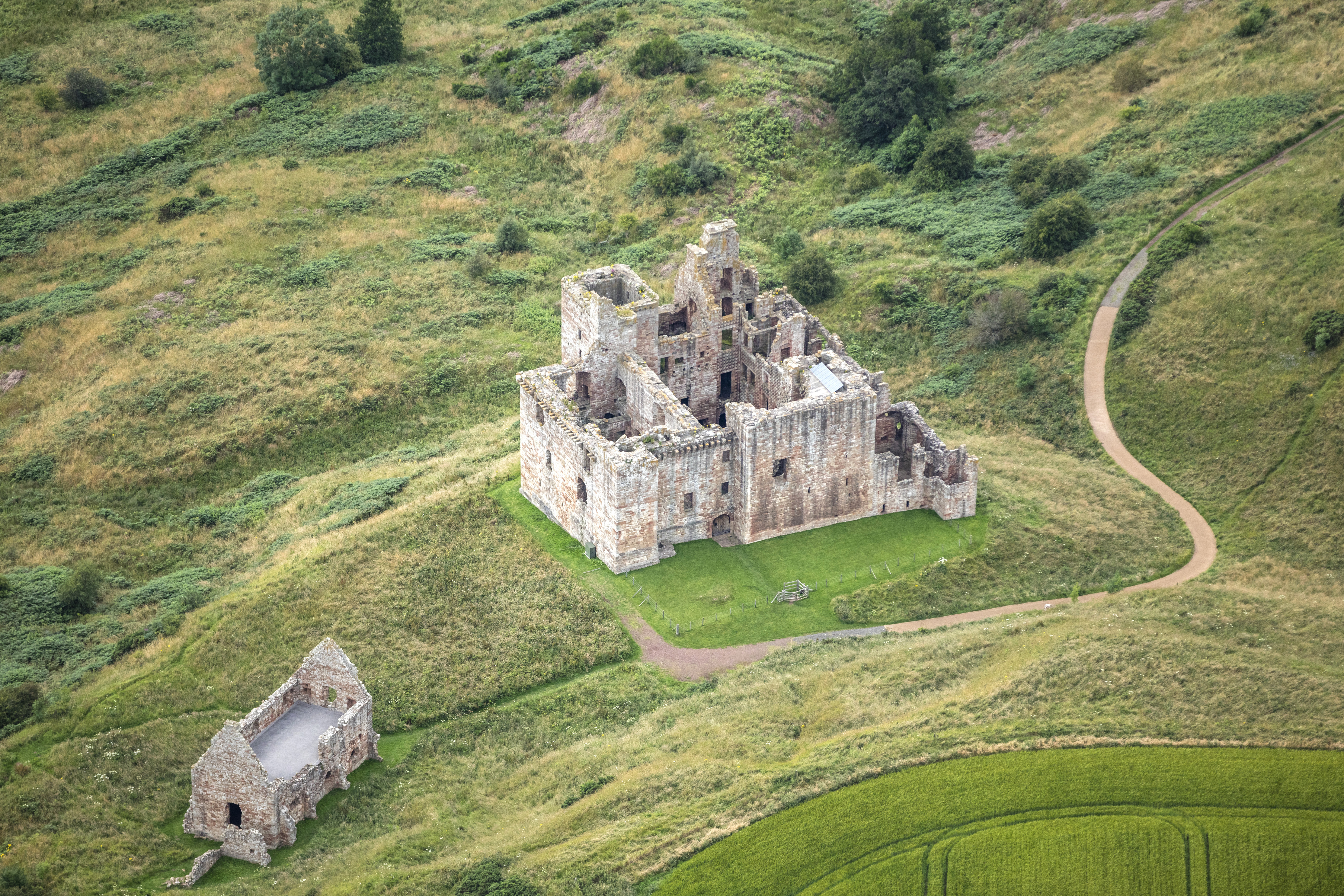 Aerial view of Crichton Castle, Crichton, Scotland Wikidata has entry Q17570527 with data related to this item.